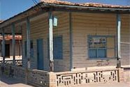 Wooden house in Playa Baracoa, Caimito municipality, Cuba